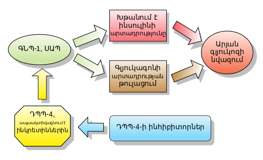 Incretins and DPP 4 inhibitors in Armenian